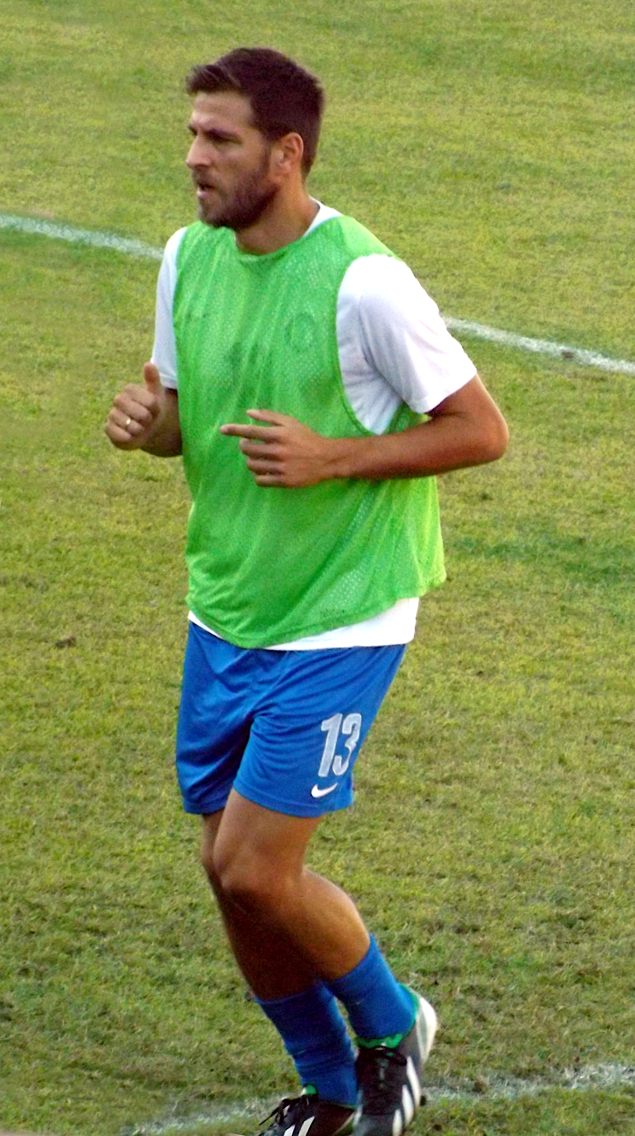 Petros Konteon during a warm up session for Iraklis.